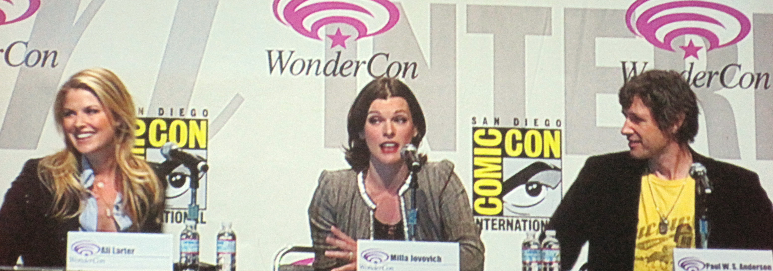 The Resident Evil: Afterlife panel at WonderCon 2010. From left to right: actresses Ali Larter and Milla Jovovich and director Paul W. S. Anderson.